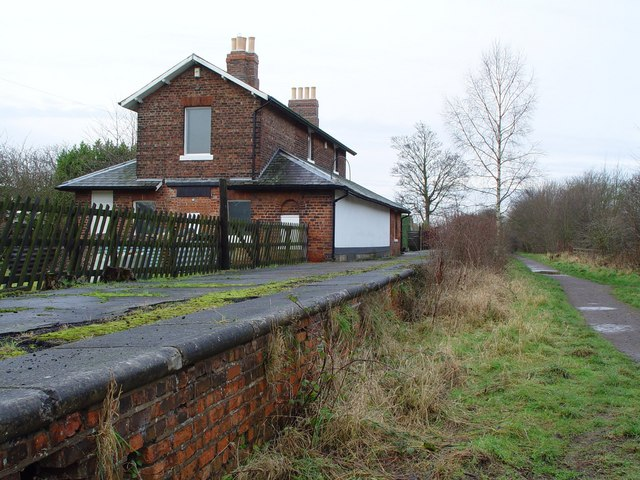 Railway Station, Hedon in the East Riding of Yorkshire, England.The platform and route of the line can be seen as well as the station building.